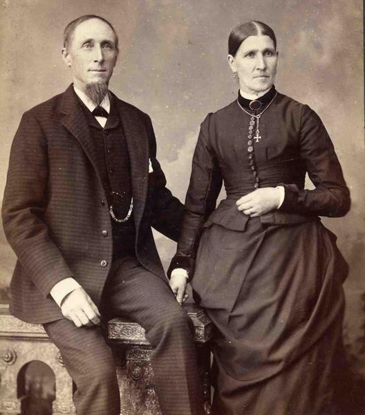 Portrait